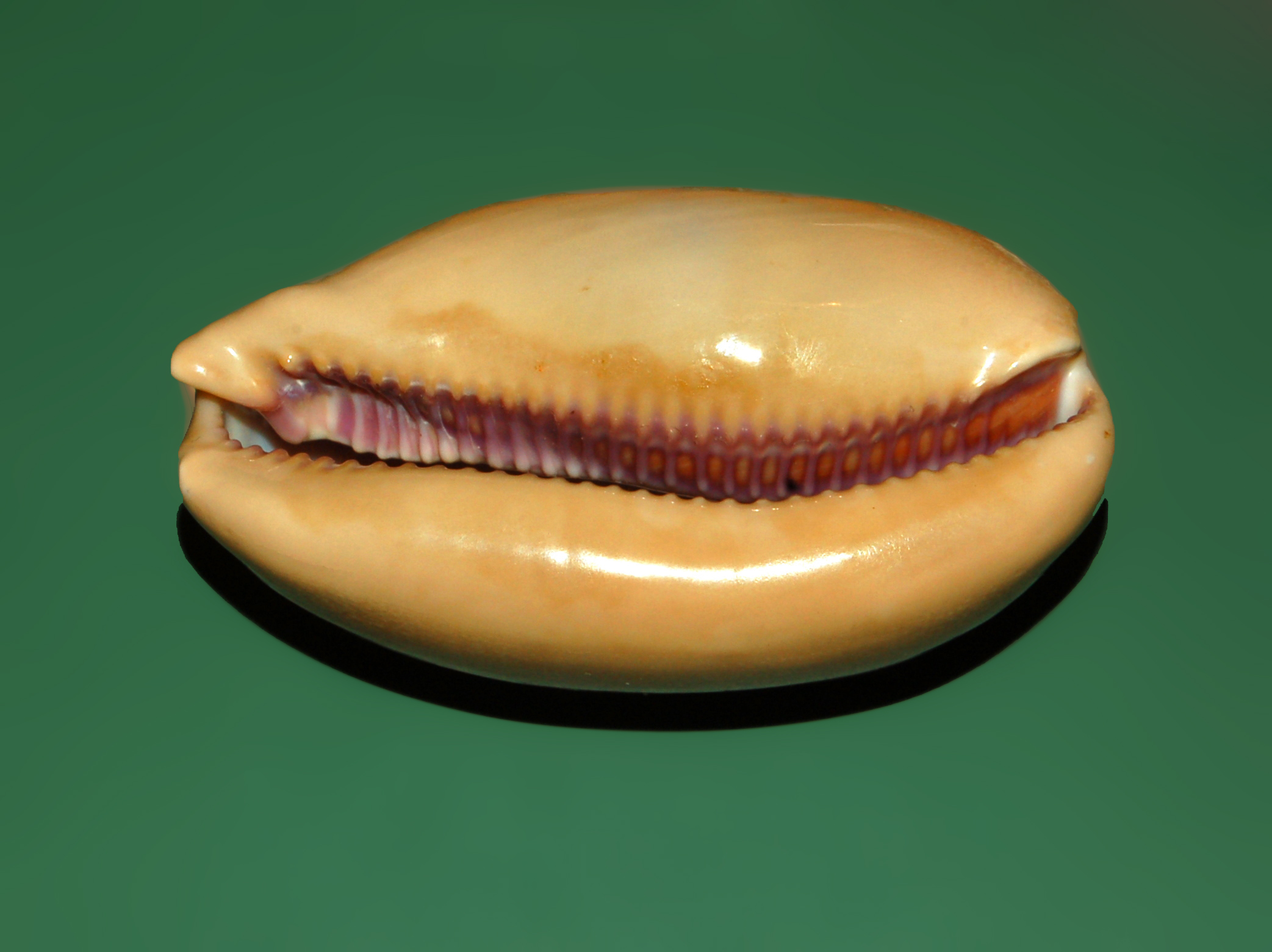 Lyncina leviathan leviathan - Hawaii